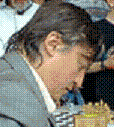 Anatoly Karpov, Chess Days 1997 at Dortmund